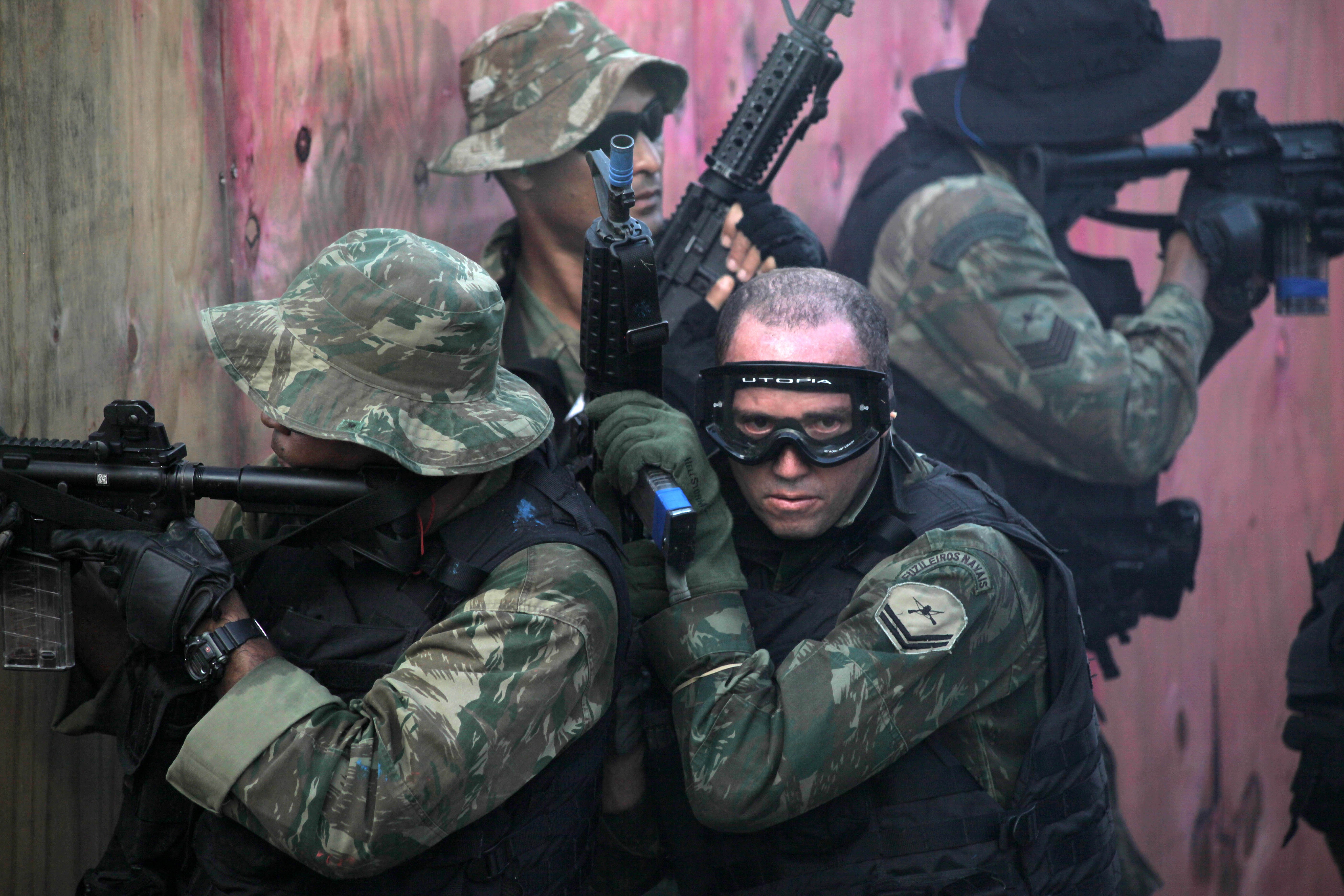 BRAZIL (May 11, 2010) Members of the Brazilian Marine Corps Special Operations Battalion clear a house using tactics exchanged with U.S. Navy SEALs during a joint combined exchange training exercise. The bi-lateral training course was facilitated by U.S. Navy SEALS and special warfare combatant-craft crewmen. (U.S. Navy photo by Chief Mass Communication Specialist Kathryn Whittenberger/Released)